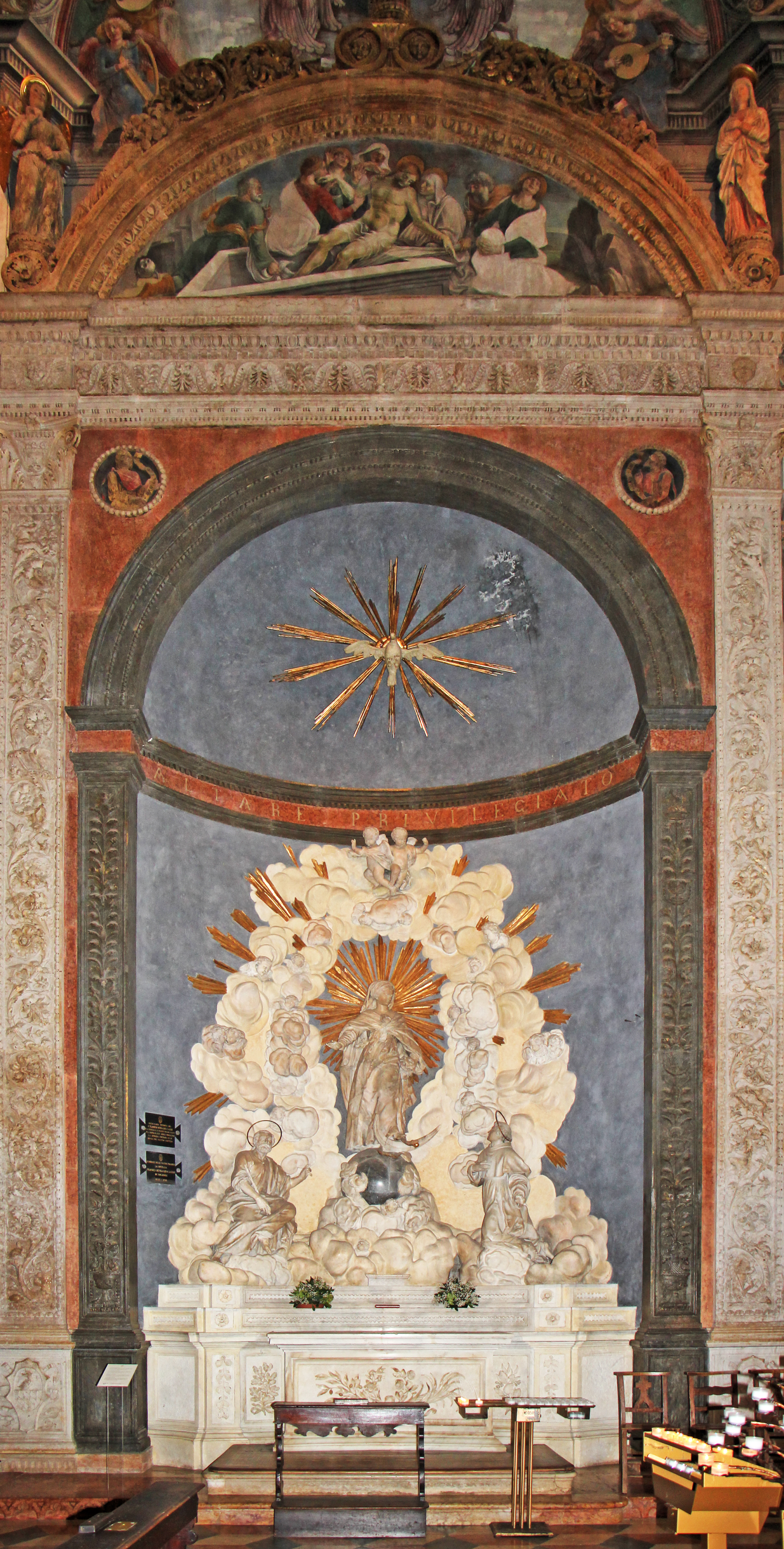 Bevilacqua-Lazise altar, Chiesa di Sant'Anastasia, Verona, Italy. The altar is dedicated to the Virgin MAry. The group of figures in marble is by Orazio Marinali (1643 - 1720).